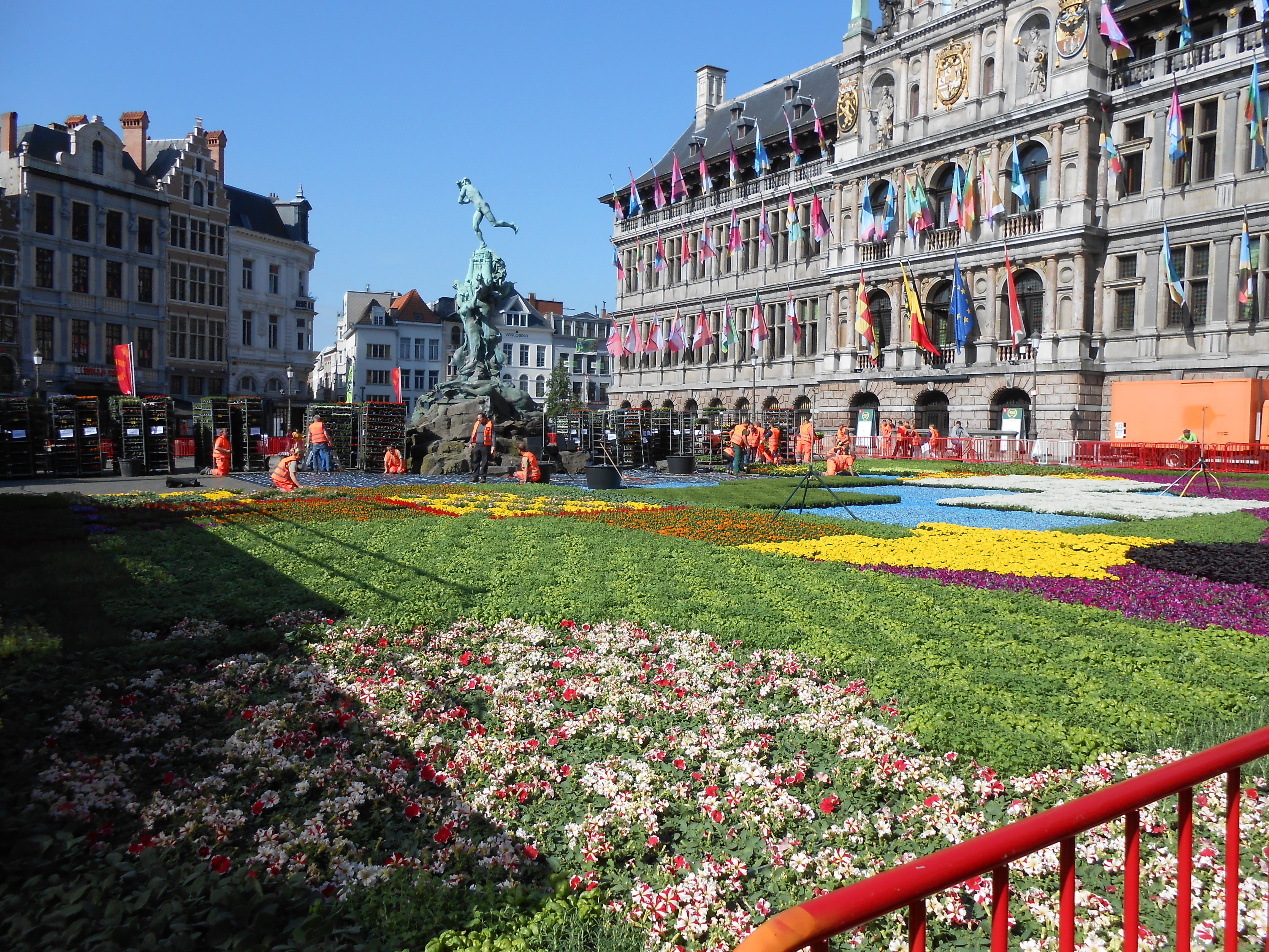 Flower carpet to celeb rate the Town Hall's 450th anniversary. The design, by artist Anne-Mie Van Kerckhoven, is based on the magnificent floor patterns in historical palaces in Antwerp.